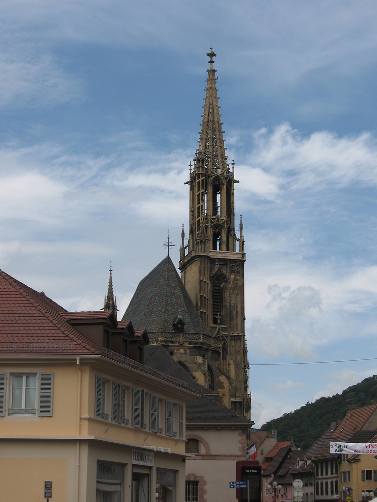 Thann's church tower